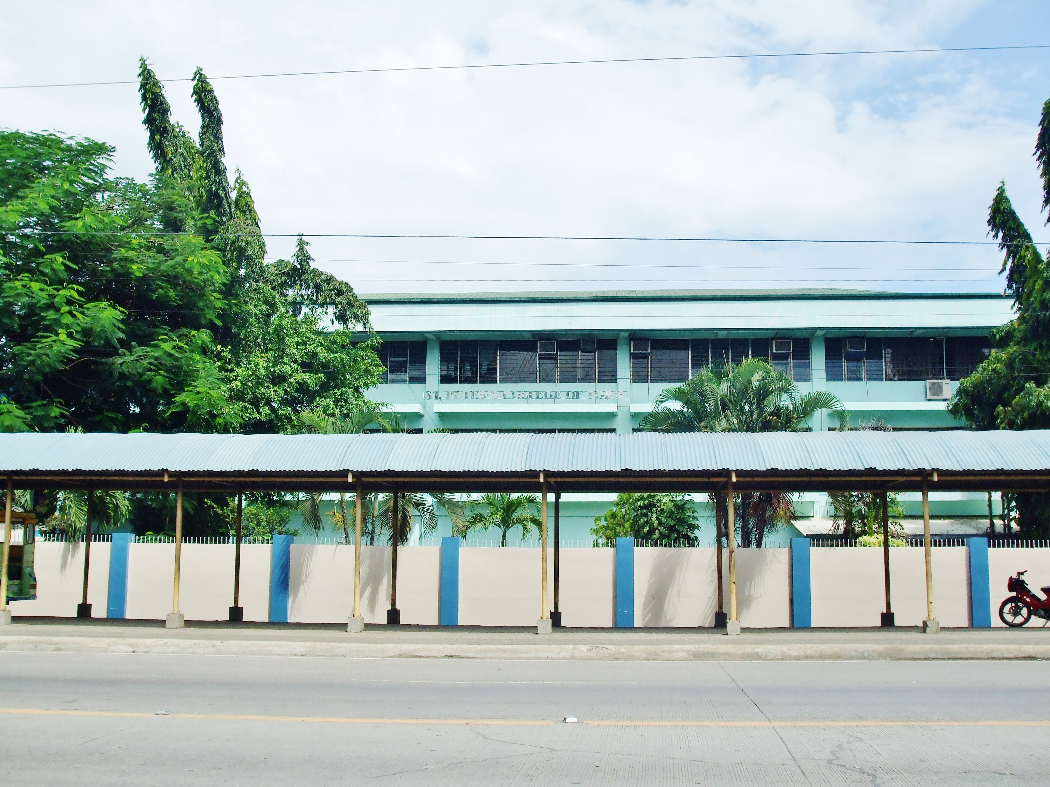 Front View